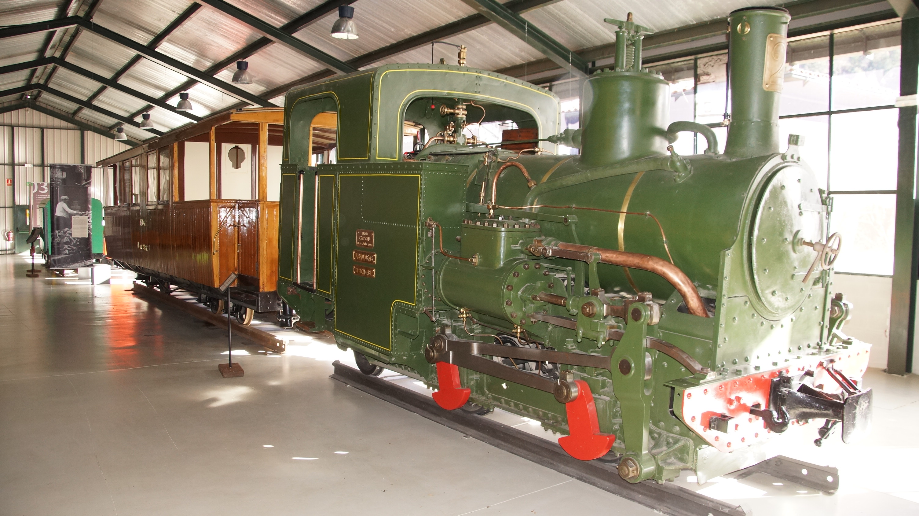 Narrow gauge railway museum in La Pobla de Lillet (Catalonia, Spain) Quelle